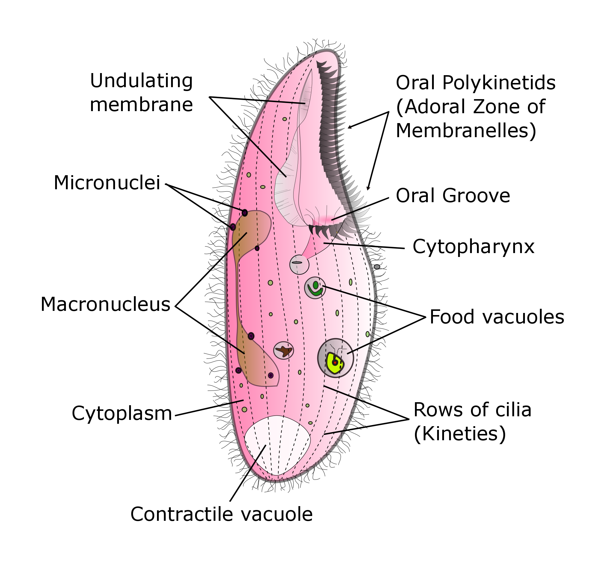 Labeled diagram of the heterotrich ciliate, Blepharisma in .png format.